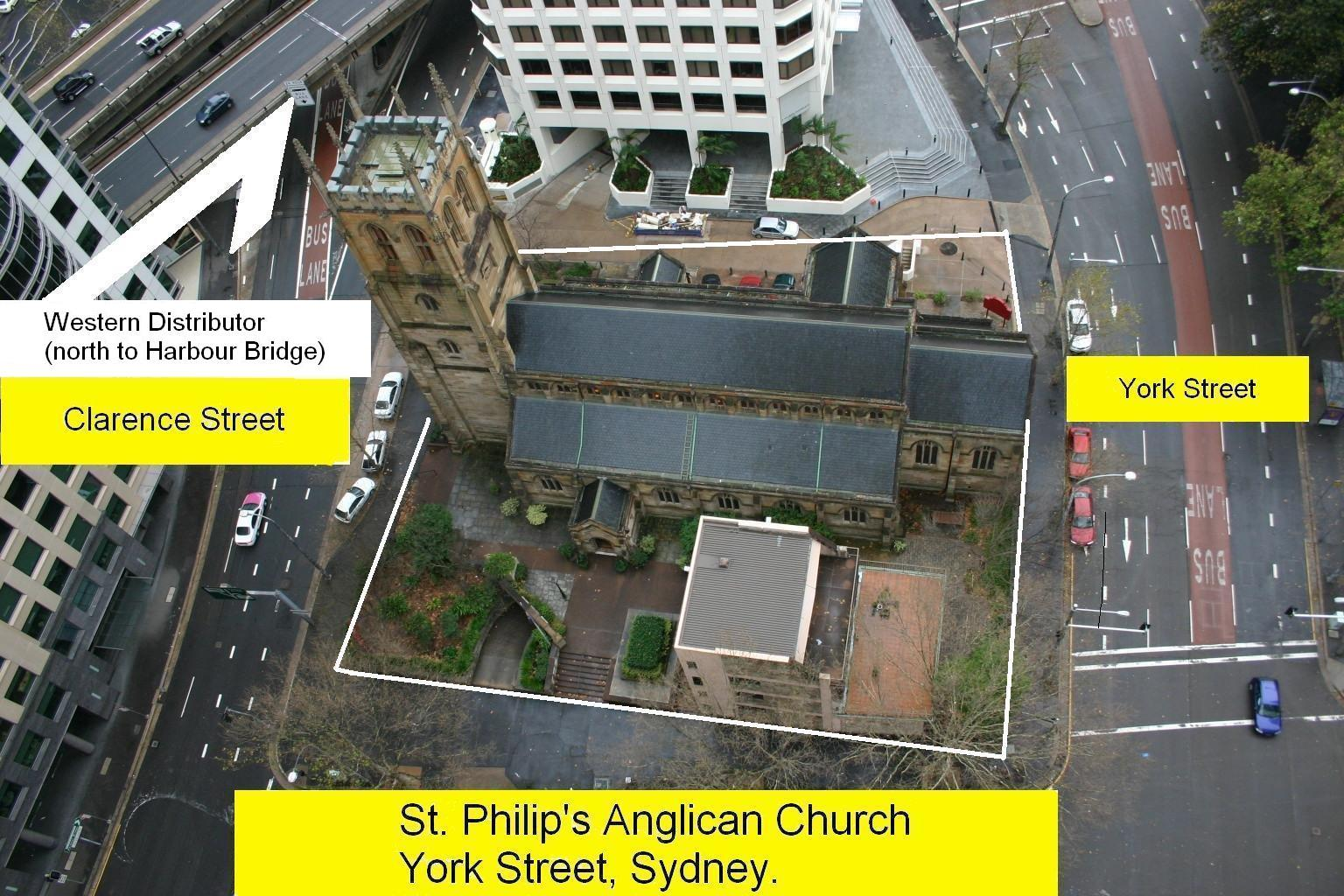 St. Philip's Anglican Church, 3 York Street, Sydney - as seen from above at The York Apartments.